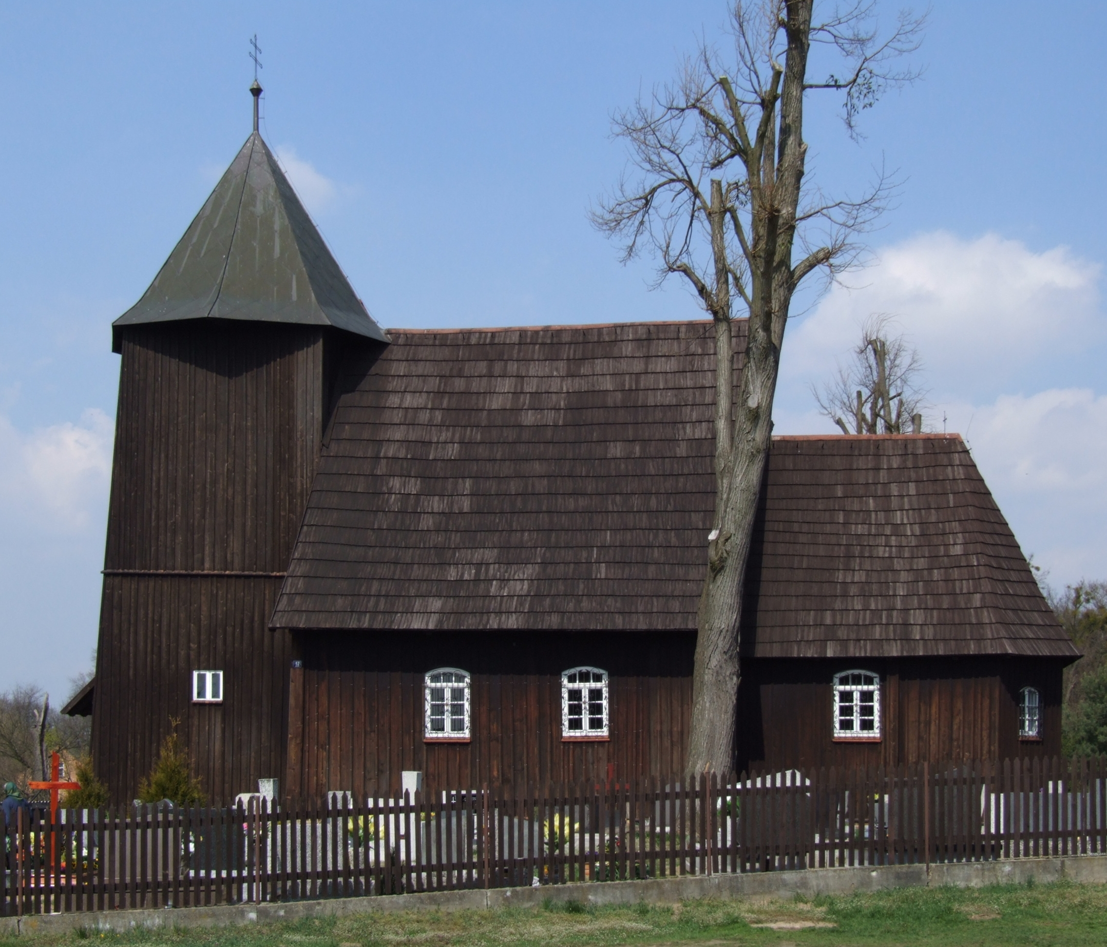 Wooden church in village Boroszów (Boroschau), Upper Silesia Ślůnski: Drzewjanny kośćůł we wśi Boroszów (Boroschau), we Gůrnym Ślůnsku